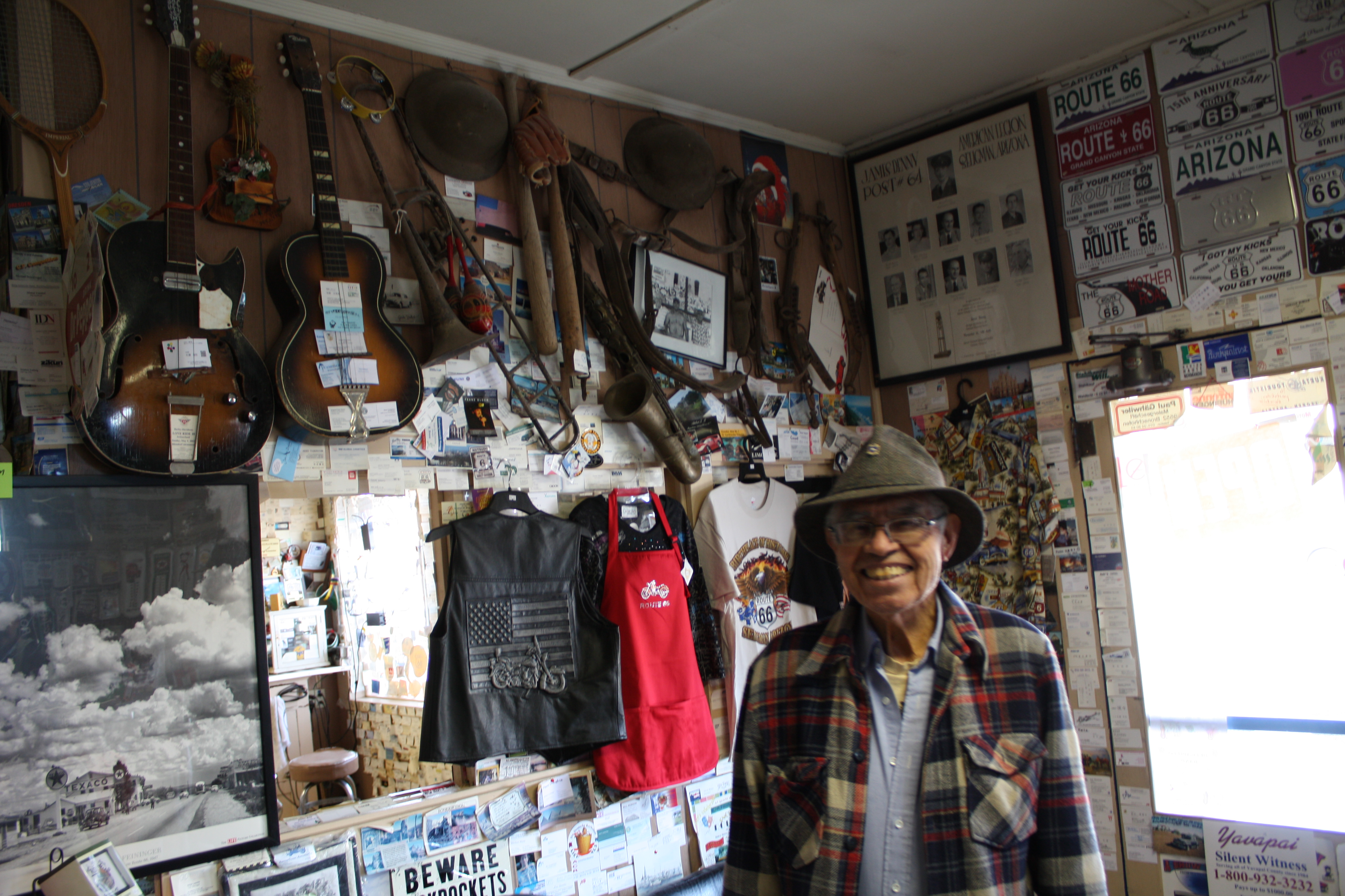 Angel and Vilma's Route 66 Gift Shop in Seligman. Angel Delgadillo is founder of Arizona's Route 66 Association.